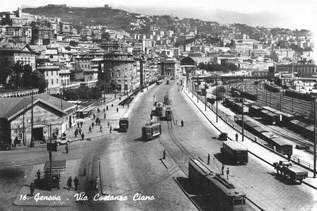 Genova, Di Negro with tramways